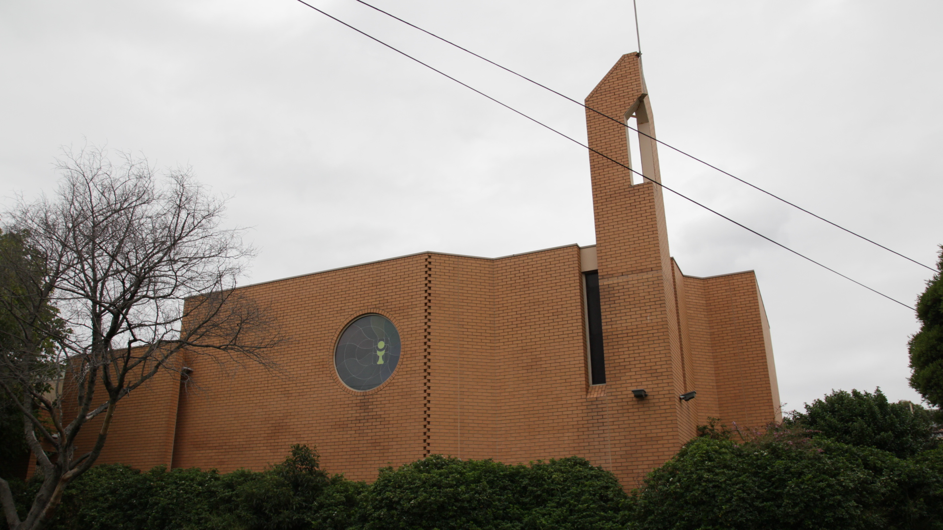 Our Lady of the Assumption Catholic Church.